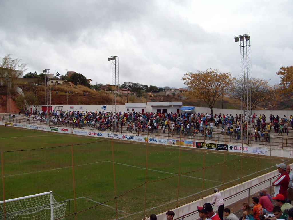 American Footbal Club Stadium of Brazil.